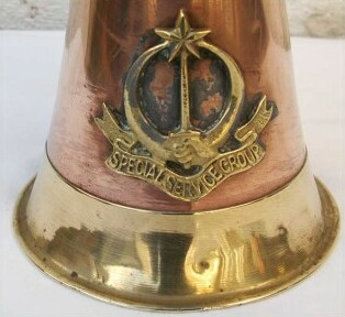 SSG Insignia